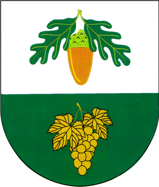 Municipal coat of arms of Ostrovánky village, Hodonín District, Czech Republic.